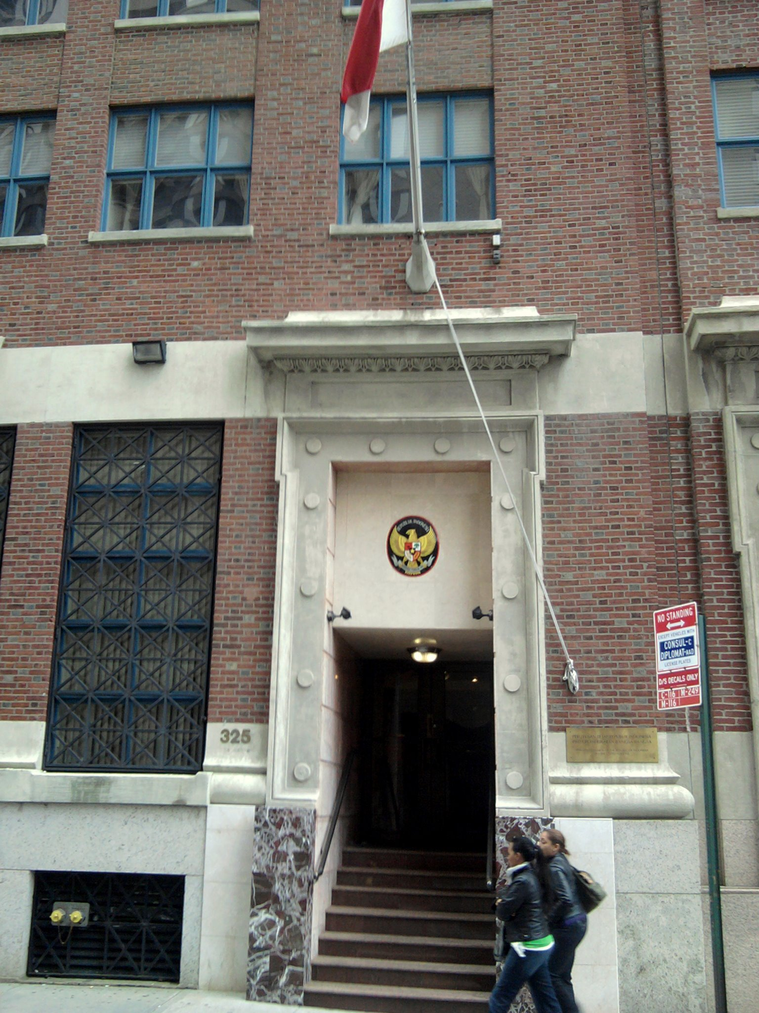 Looking north at Indonesia mission to United Nations, 325 E38th St, on a cloudy day.